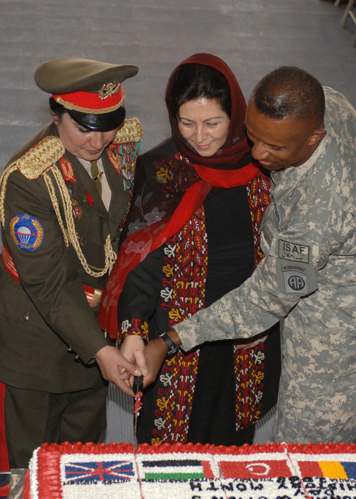 From left, Afghan National Army Brig. Gen. Khatool Mohammadzai, Dr. Husn Banu Ghazanfar, from the Ministry of Women's Affairs; and U.S. Army Brig. Gen. Rodney Anderson, the deputy commanding general - support of Combined Joint Task Force-82, cut a cake during an international women's day celebration on Bagram Air Base, Afghanistan, March 3, 2008. DoD photo by Master Sgt. Demetrius Lester, U.S. Air Force. (